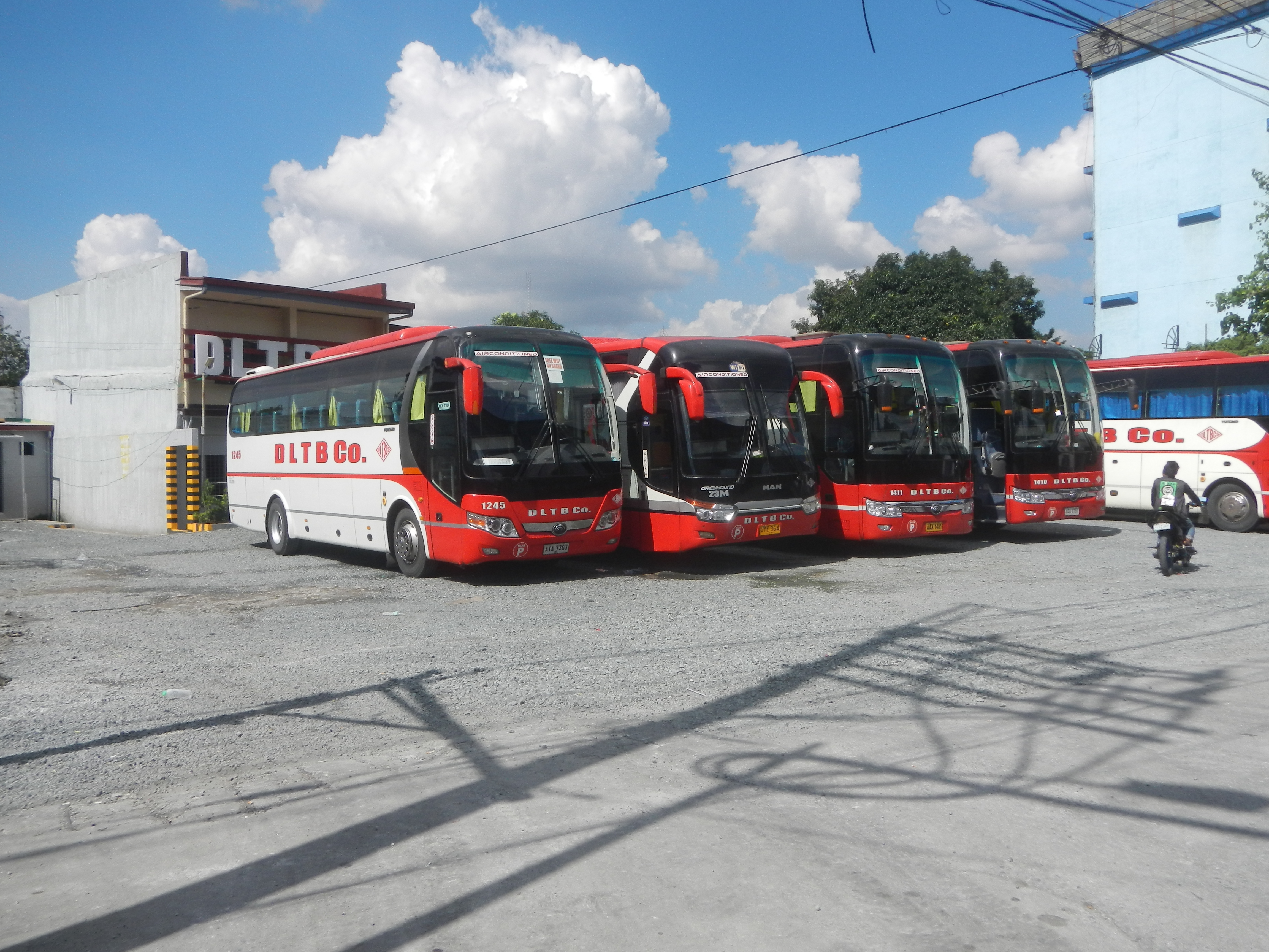 Aurora Boulevard Flyover Overpass corner and from C. Benitez Street 14°36'53"N 121°2'48"E P. A. Bernardo (Arayat) Avenue 14°37'8"N 121°2'55"E in List of barangays of Metro Manila Legislative districts of Quezon City Districts 3, Barangays of Quezon City, Barangays San Martin de Porres 14°37'4"N 121°2'58"E Kaunlaran and Immaculate Conception, District III, Cubao, Quezon City (Note: Judge Florentino Floro, the owner, to repeat, Donor Florentino Floro of all these photos hereby donate gratuitously, freely and unconditionally all these photos to and for Wikimedia Commons, exclusively, for public use of the public domain, and again without any condition whatsoever).